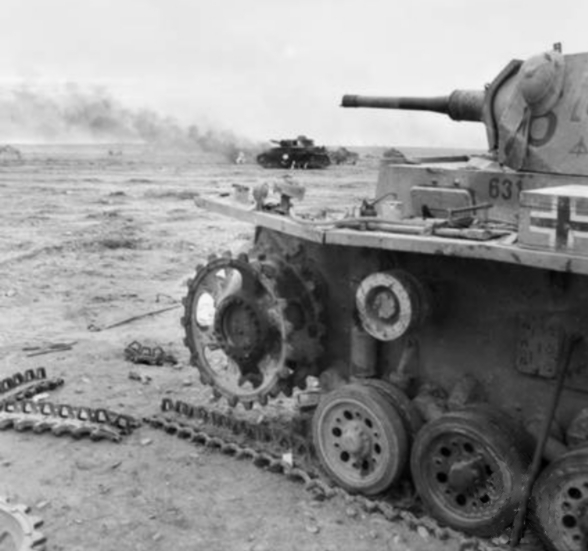 A knocked-out German Panzer III Ausf. H from the 15th Panzerdivision in Libya.